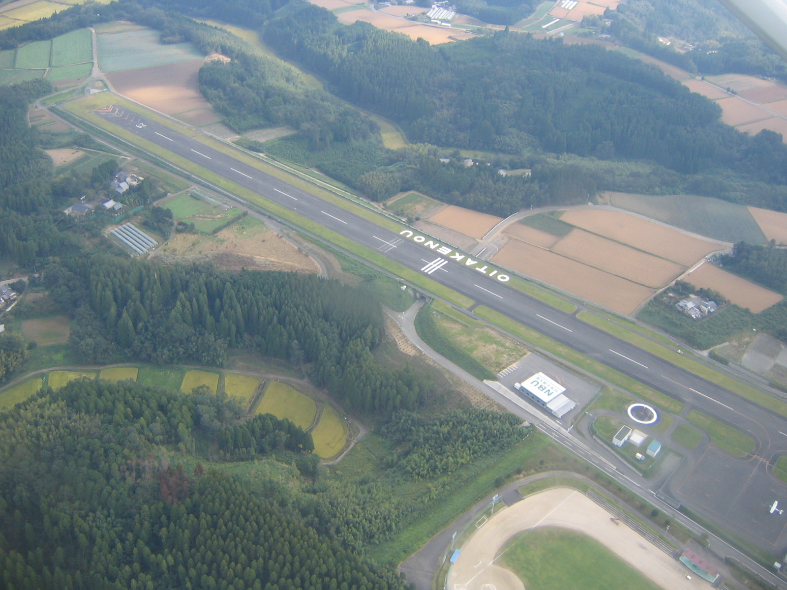 Oita Kenou Airport